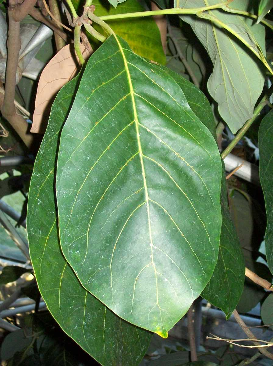 Litsea bindoniana leaves at the Royal Botanic Gardens, Sydney